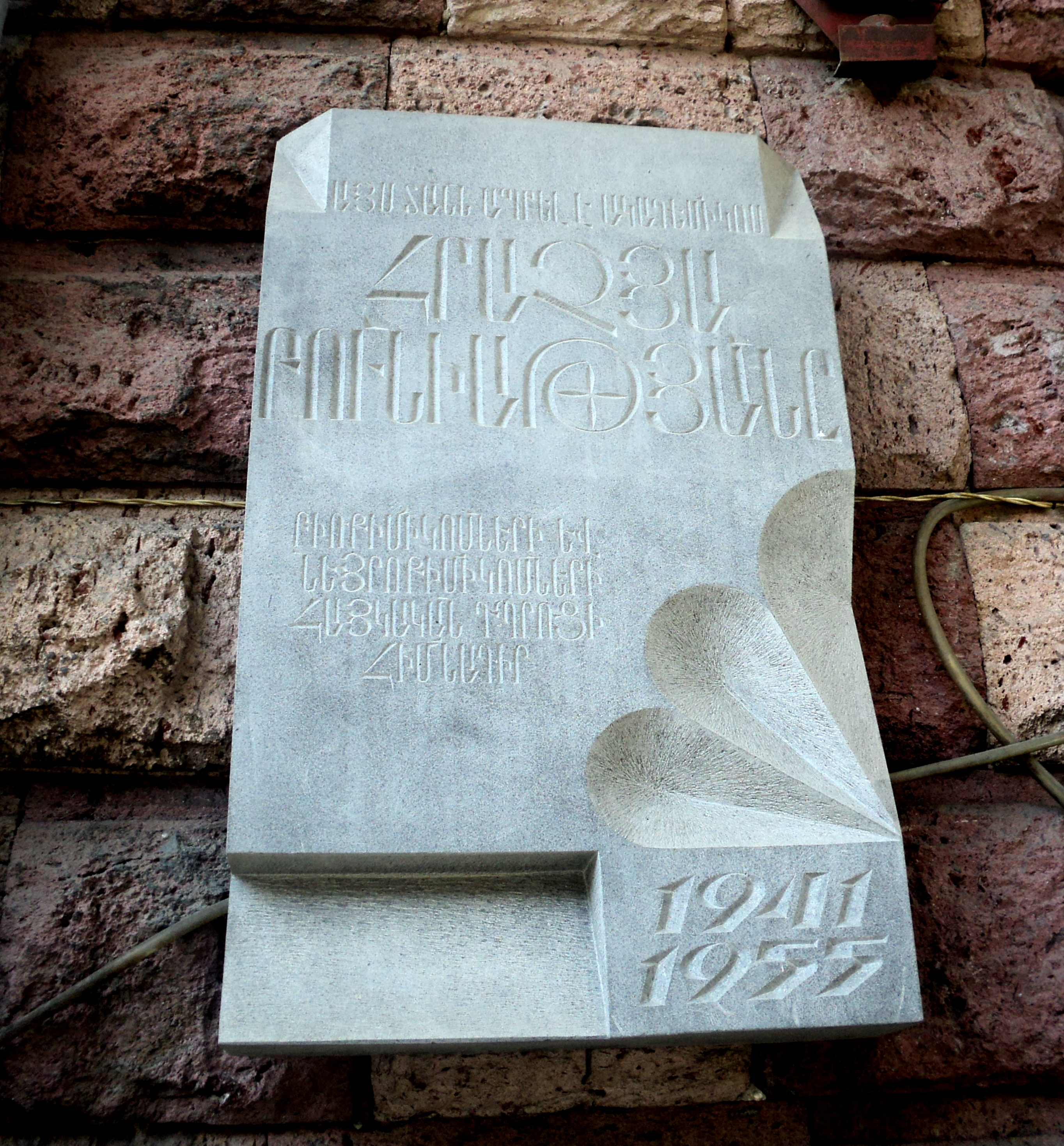 Hrachya Buniatyan's plaque in Yerevan